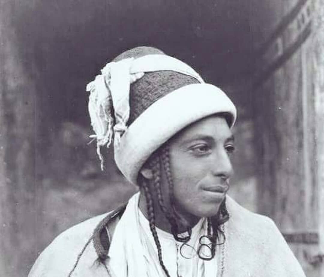 Ezidi boy